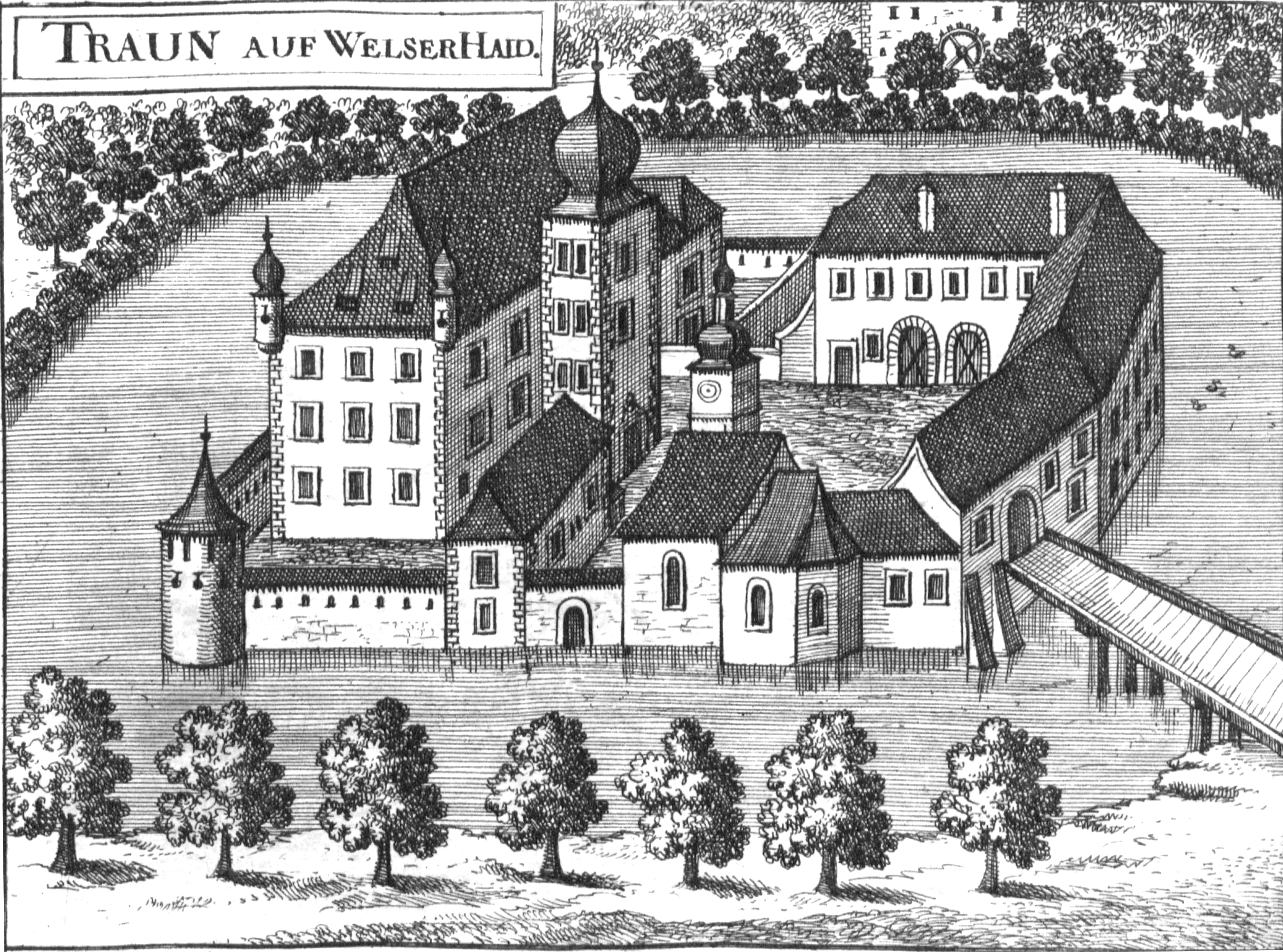 Castle Traun in Upper Austria, drawing from M. Vischer 1674